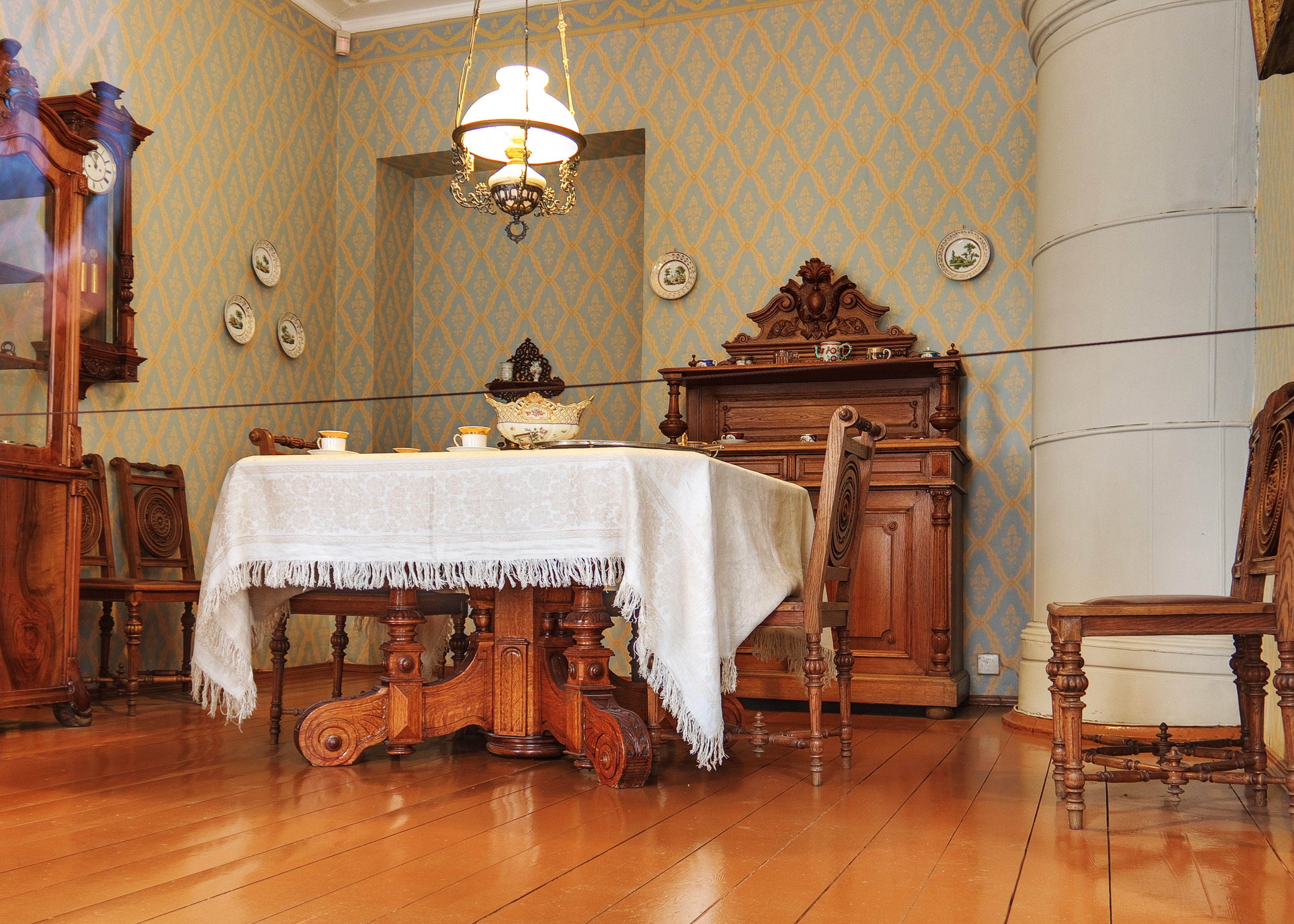 One of the rooms of the Dostoevsky Literary Memorial Museum, Kuznecny lane 5/2, Saint Petersburg, Russia